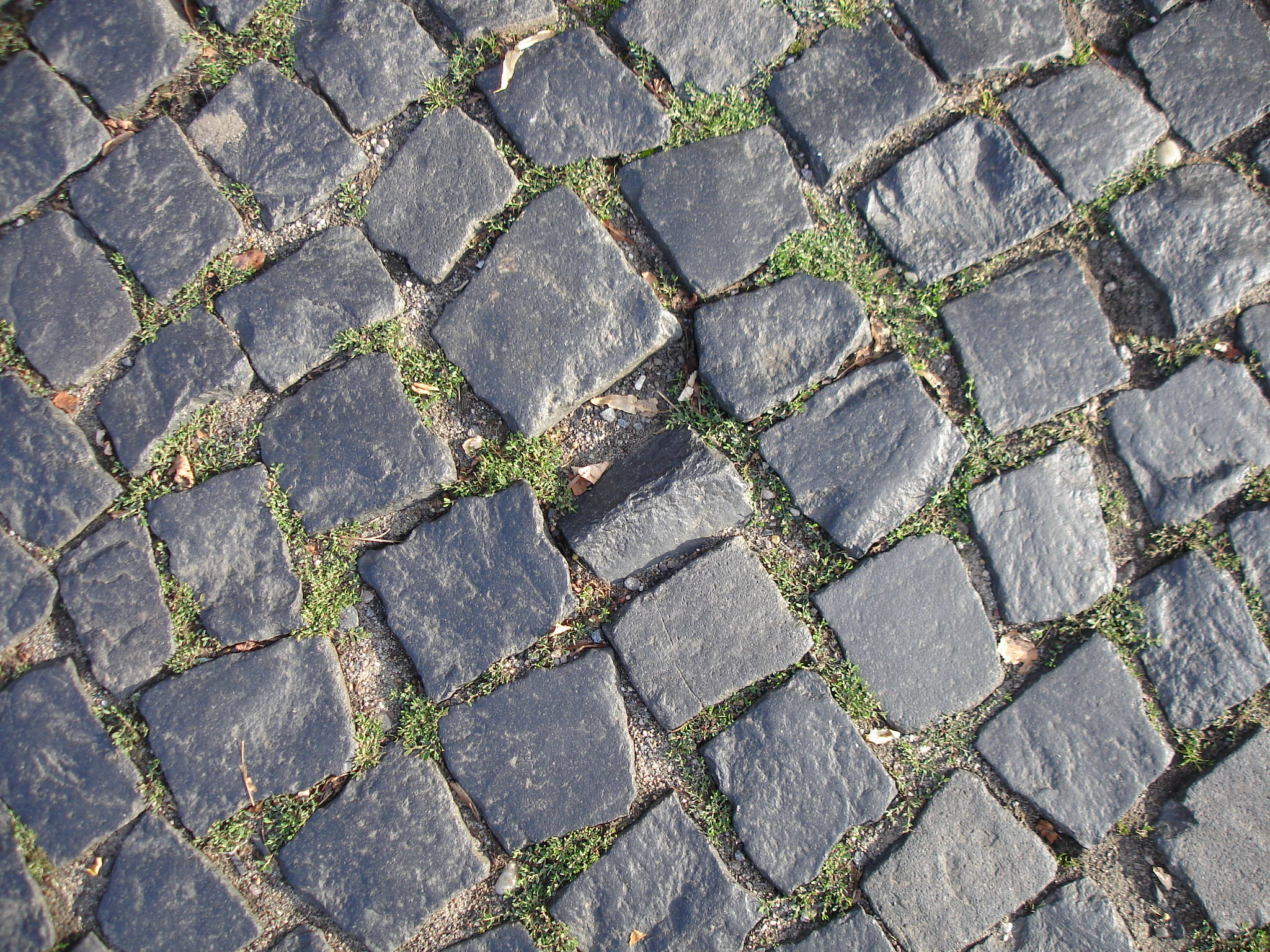 Saginion procumbentis grup (Phytosociology) on Cobblestone street. We can see Polygonum aviculare, Sagina procumbens and Poa annua